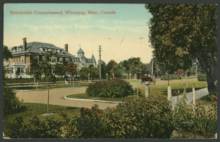 Looking west from Munson Park onto a Mansion on Wellington Crescent (514 Wellington Crescent, still standing as of 2017). View of St. Mary's Academy in the background behind the mansion. c. 1912 Postcard from the Martin Berman Postcard Collection at the Winnipeg Public Libraries